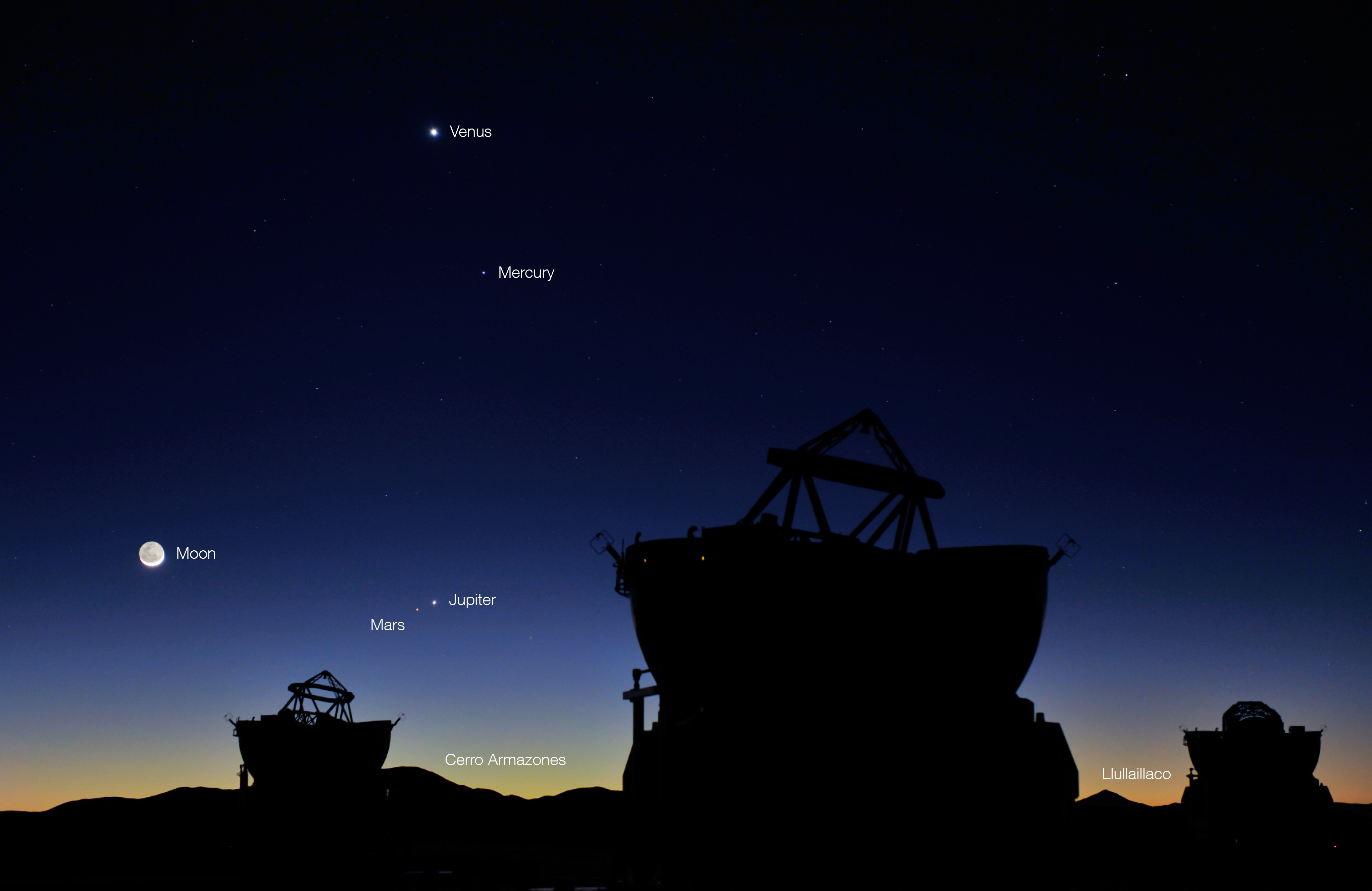 ESO Photo Ambassador Gerhard Hüdepohl has captured yet another rare sight. Yesterday, in the morning of 1 May 2011, about an hour before sunrise, five of our Solar System’s eight planets and the Moon could be seen from Paranal. The four planets in the sky were Mercury, Venus, Mars and Jupiter, and they were joined by the crescent Moon to create this wonderful photo opportunity of a planetary conjunction — two or more celestial bodies seen near each other in the sky, usually from the Earth. In this photo, the bright crescent of the Moon is illuminated by the Sun (which is just below the horizon), while the darker part receives only light reflected from the surface of the Earth. Venus is the highest and brightest planet, with Mercury below and to the right. Jupiter is directly below Venus, but much closer to the horizon. Mars can be seen just below and to the left of Jupiter; the separation in the sky was less than half a degree. The fifth planet in the photograph is of course the Earth, providing our vantage point for this spectacular conjunction. This view from Cerro Paranal shows some nearby, and more distant, mountain peaks in the Atacama Desert, one of the driest places on this planet. Three of the ESO Very Large Telescope’s 1.8-metre Auxiliary Telescopes (ATs) are silhouetted in the foreground. Just to the right of the leftmost AT is Cerro Armazones, site of the future European Extremely Large Telescope (E-ELT). Armazones is about 20km from Paranal. Between the ATs on the right is the distant volcano Llullaillaco, on the border of Chile and Argentina. It is much further away than Armazones, at a distance of 190km, but the exceptionally clear atmospheric conditions in the Atacama Desert provide a razor-sharp view, despite the distance. These conditions also help to make the region one of the best in the world for astronomical observations.